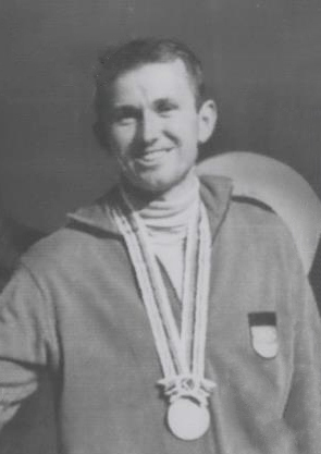 1964 Press Photo Fred Hansen wins gold at pole vault in Tokyo Olympics